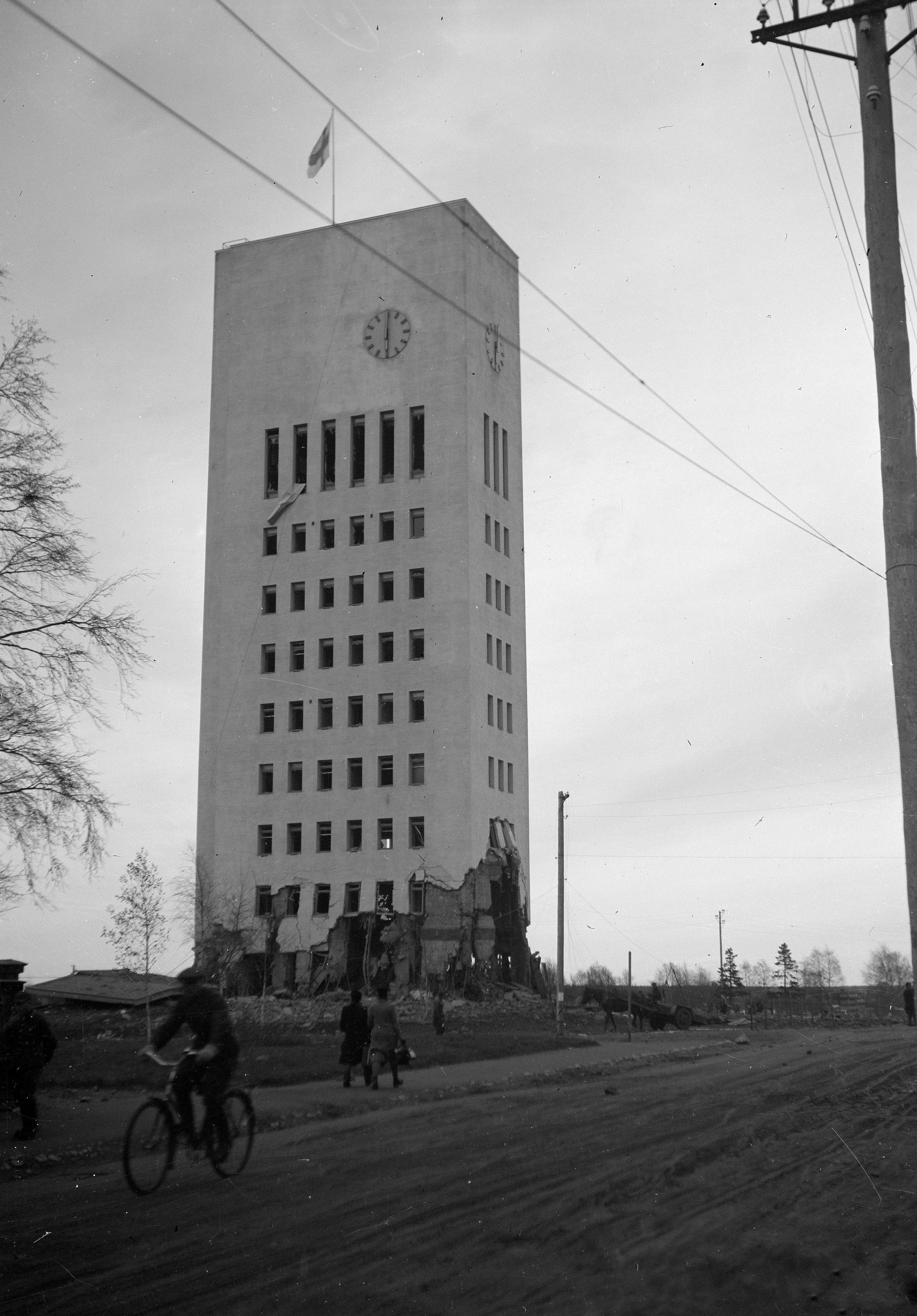 Kemi Town Hall that has been damaged by explosions.